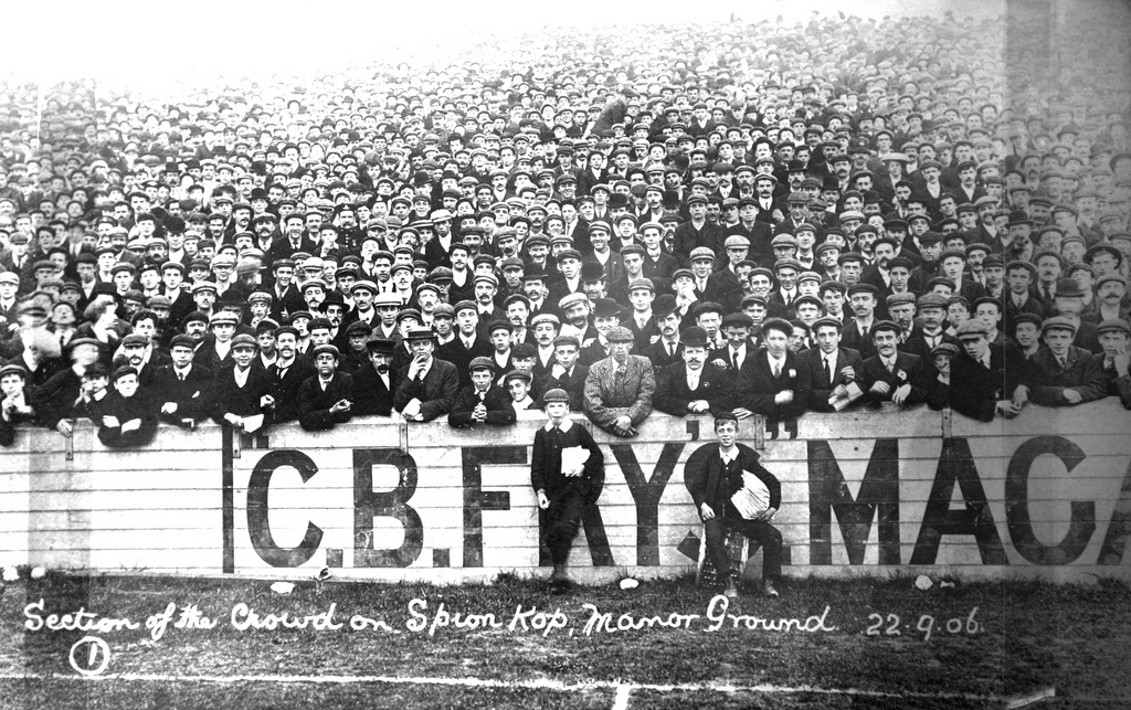 Part of Spion Kop, Manor Ground, Plumstead.